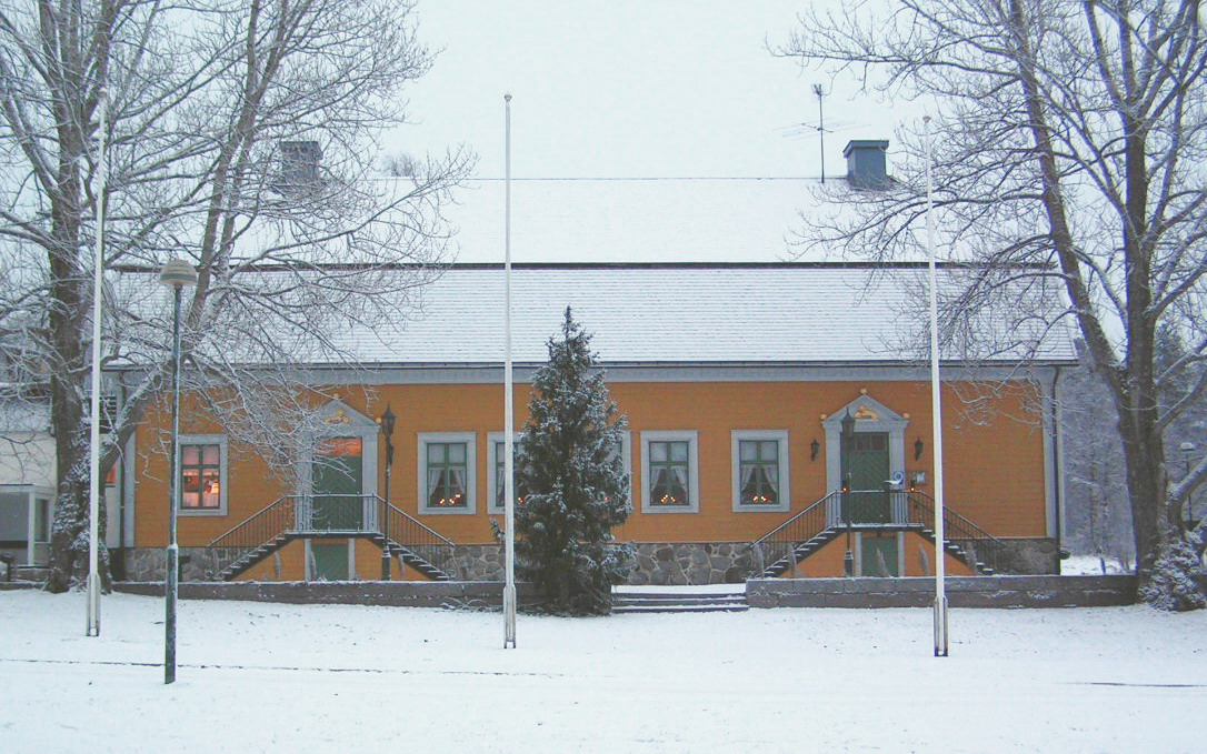 Sävar mansion